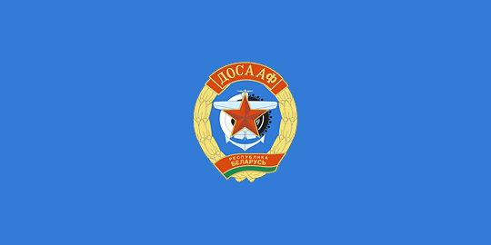 The flag of DOSAAF RB. Symbol based from official website.